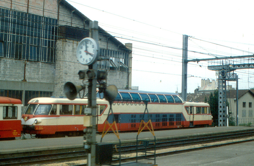 It looks like a diesel railcar for tourists. I took this photo in Avignon, from a train.